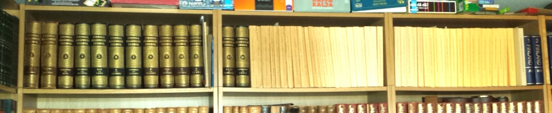 The Swedish national dictionary Svenska Akademiens Ordbok, as of late 2014.